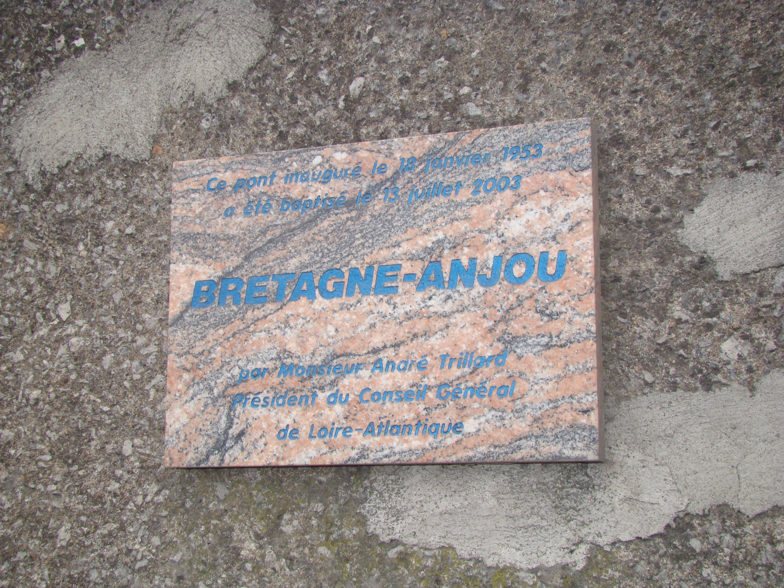 Pink granite plate affixed on July 13th, 2003 by Mr André Trillard president of the Conseil général de la Loire-Atlantique on the Bretagne-Anjou bridge between Ancenis and Liré with its baptismal name. The bridge was inaugurated on January 18th, 1953.